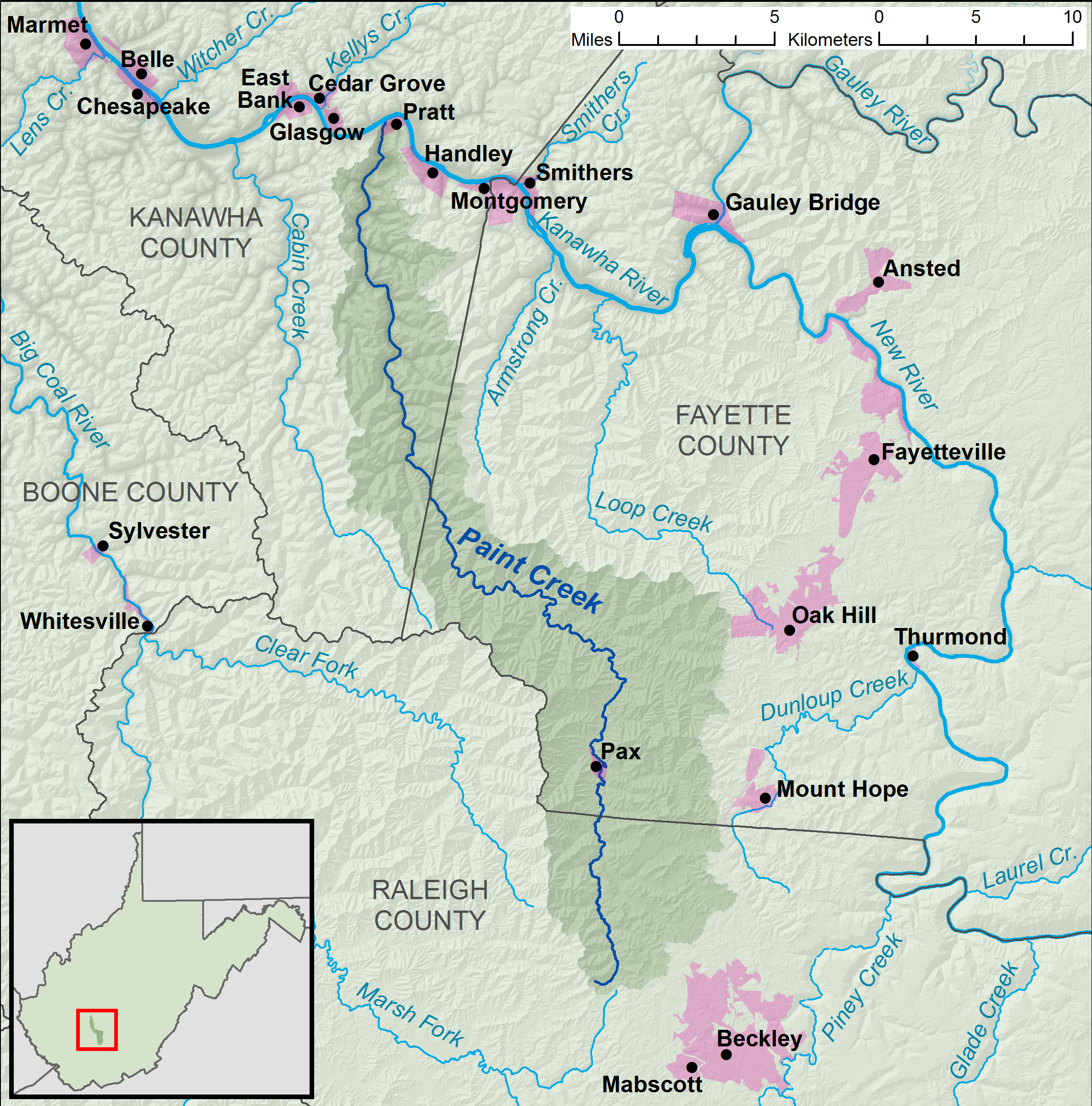 A map of Paint Creek and its watershed (USGS HUC-10 code 0505000601), in Kanawha, Fayette, and Raleigh counties in West Virginia.